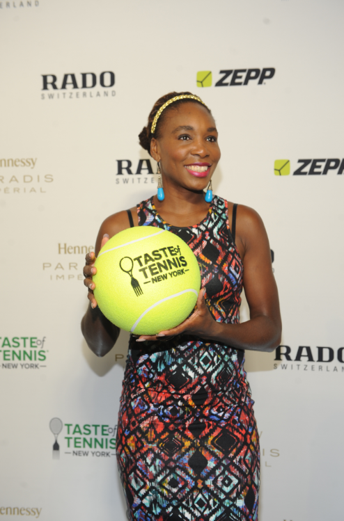 Venus Williams at Taste of Tennis New York 2015